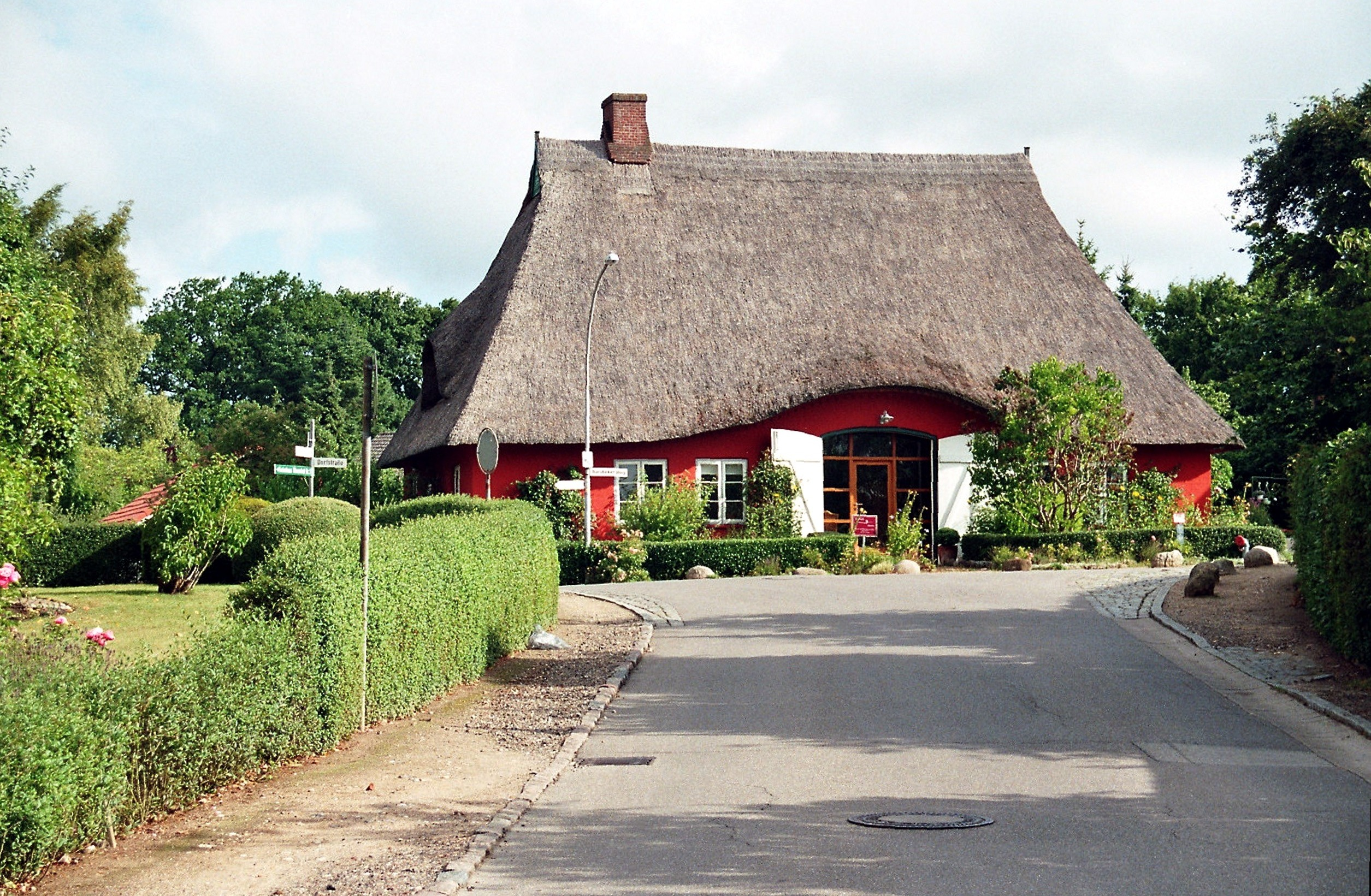 Lutterbek, reed-thatched house